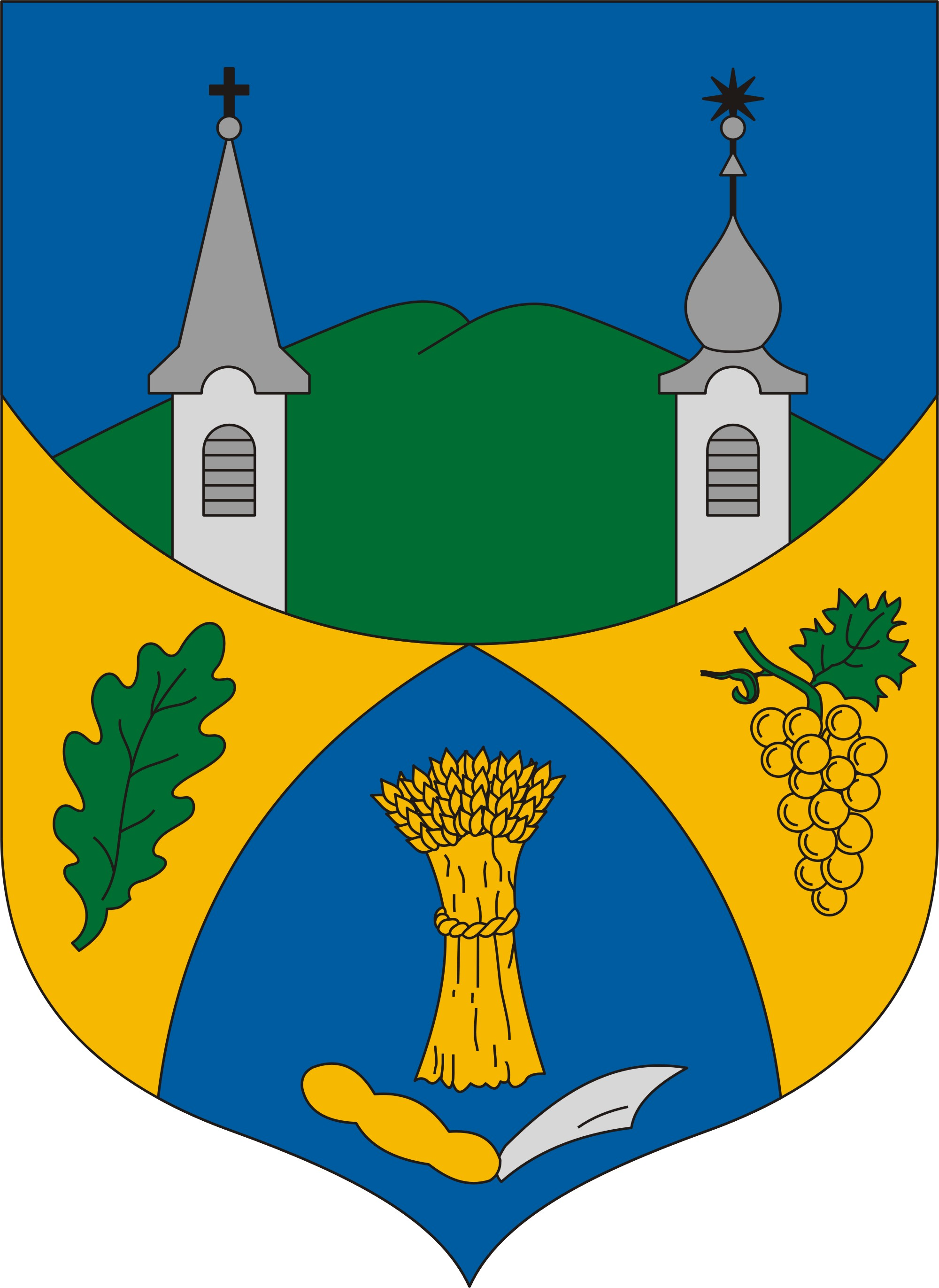 Coat of arms of Csákberény, Hungary